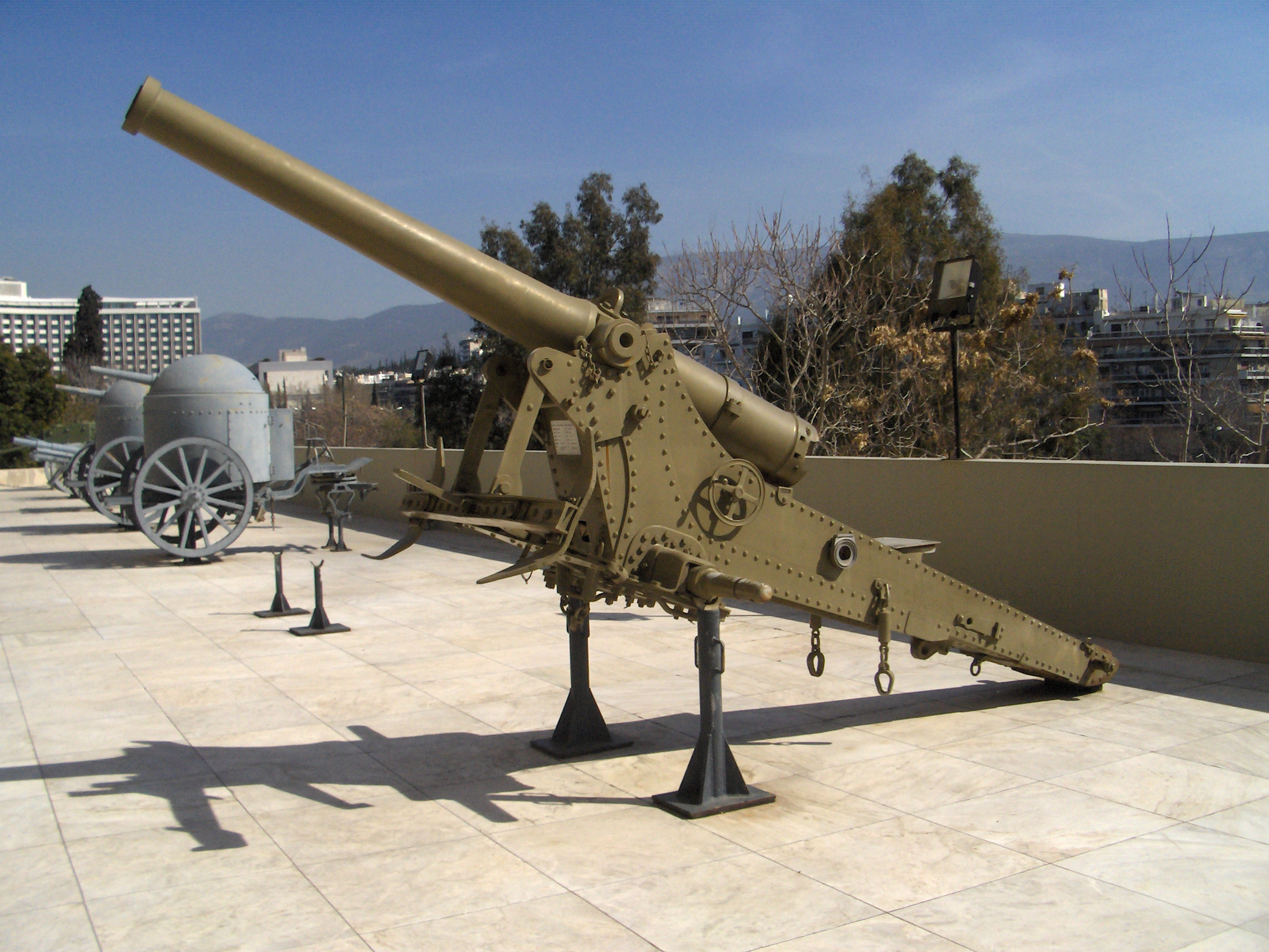 Exhibit at the War Museum in Athens. De Bange medium long gun